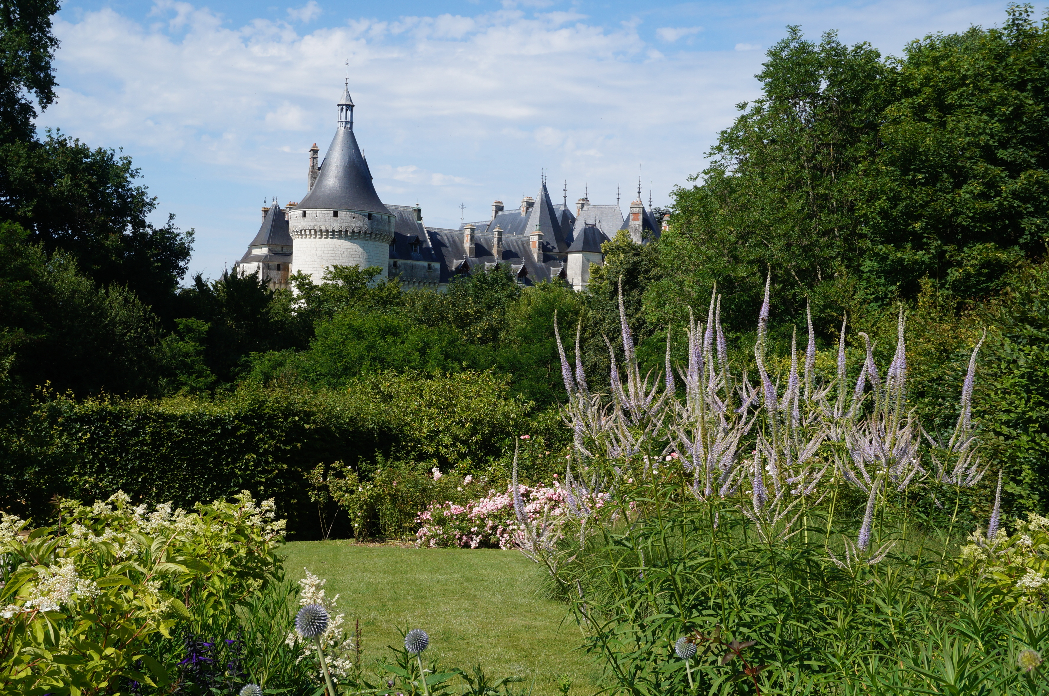 The wonderful chateau seen from its original garden!